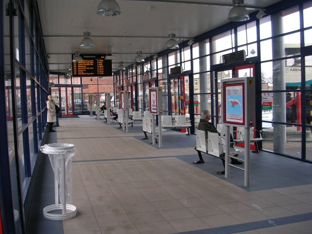 Ossett Bus Station